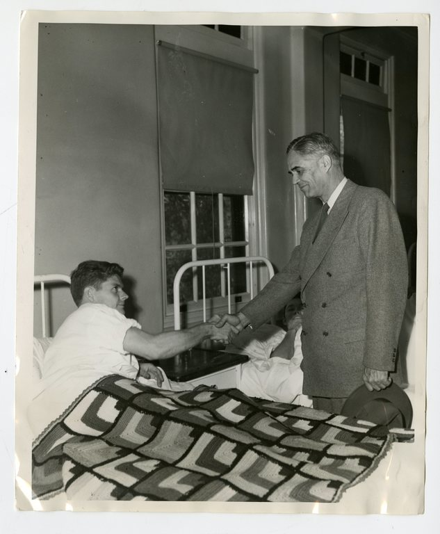 "Ralph A. Bard, Under Secretary of the Navy, pauses in a tour of the U.S. Naval Hospital, San Diego, to talk with a Marine wounded in the recent conquest of Peleliu in the Palau Islands. The patient is Pfc. Lewis R. Juergens, USMC, of 950 South Floyd Street, Louisville, Ky., formerly of Chicago, who was hit by shrapnel on the third day of the invasion, and who reached the hospital only a week ago."